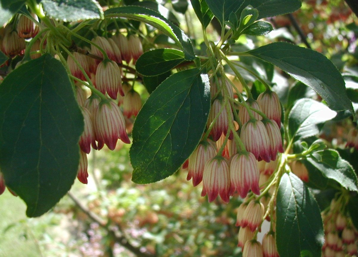 Enkianthus campanulatus: Flowers and leaves. Photo: Sten Porse